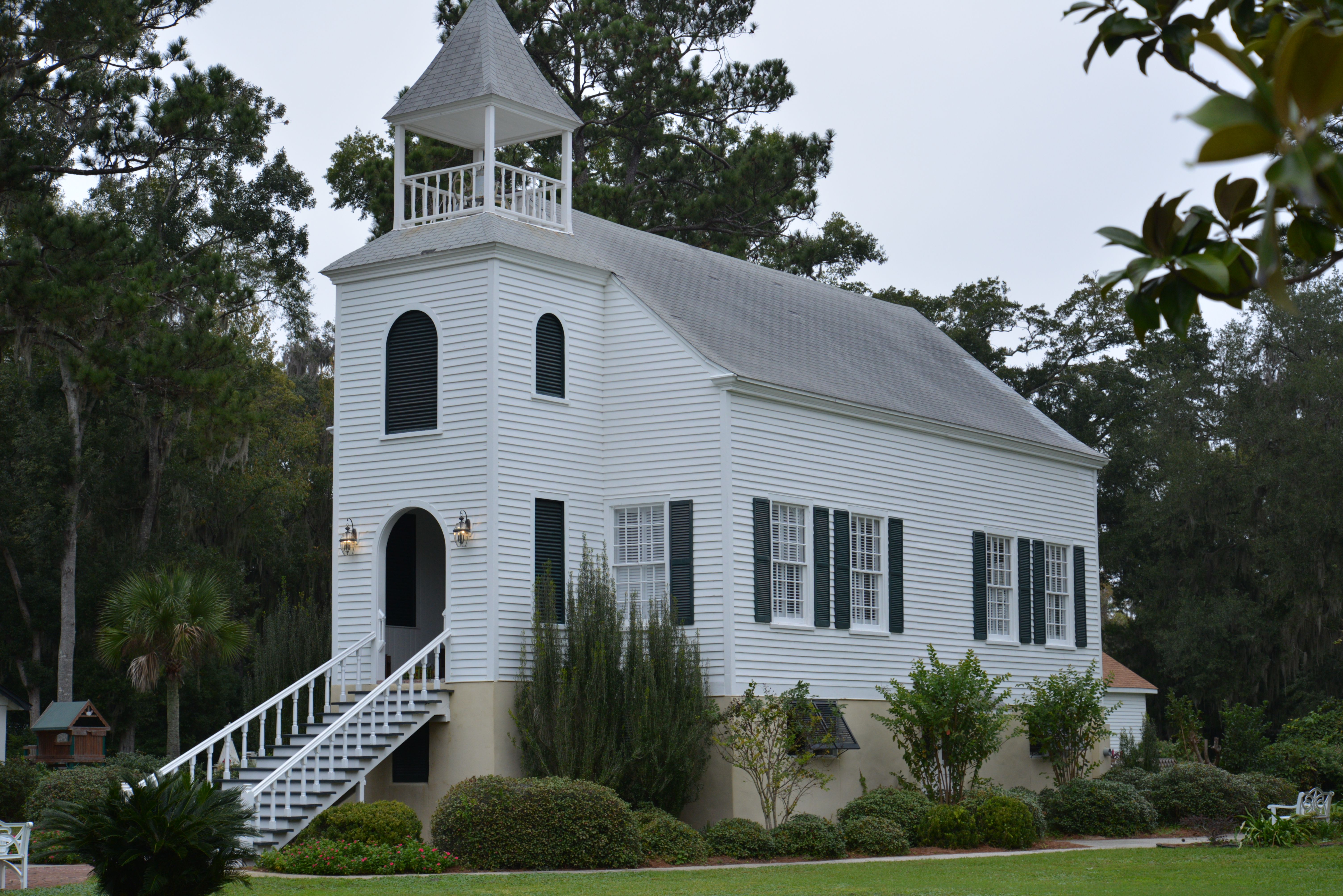 St. Marys Historic District, St. Marys, Georgia, US. First Presbyterian Churchm corner of Conyers and Osborne. 1808.